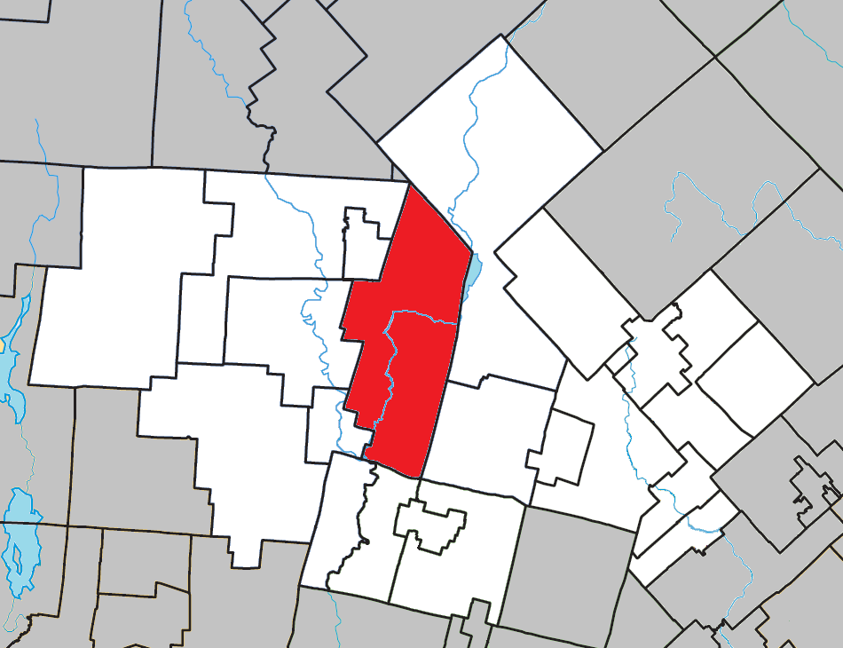 Location of Mont-Tremblant, Quebec within Les Laurentides Regional County Municipality.